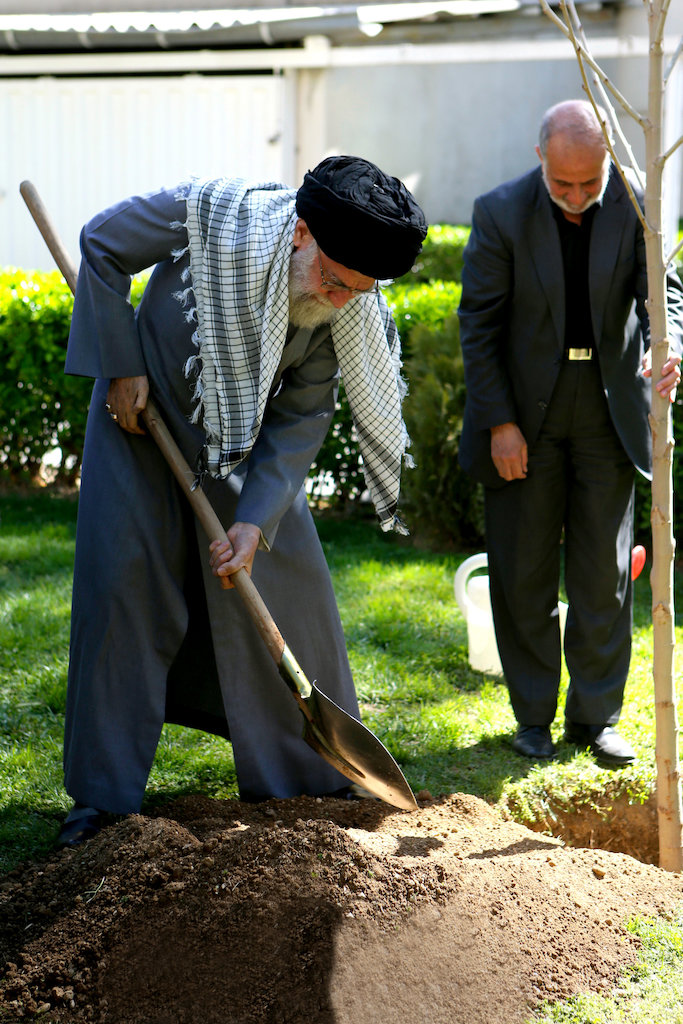 Arbor Day and planting tree by Ali Khamenei, Supreme Leader of Iran.